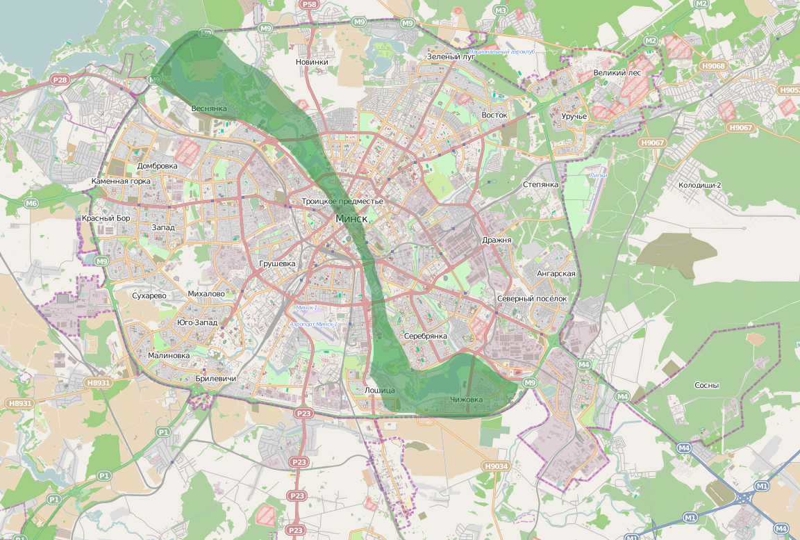 Scheme of Minsk water and greenery diameter (Minsk city, Belarus)